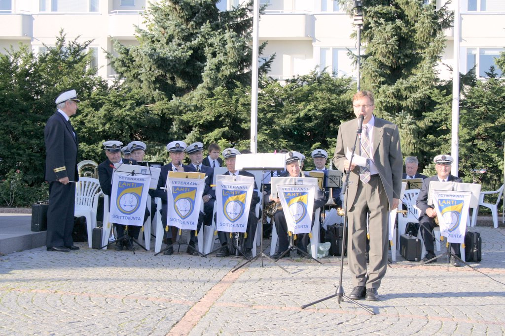 Evening of the rails/Direct line festival During the historical openings of the Kerava-Lahti (the Lahti direct line) direct railway line the Finnish state railways organised the direct line festival. The Lahti Veteran brass band will deliver its programme for the elder audience as a part of the cultural happening the evening of the rails, which replaced continuous the night of arts happening, which is quite popular in several biggest cities of Finland.